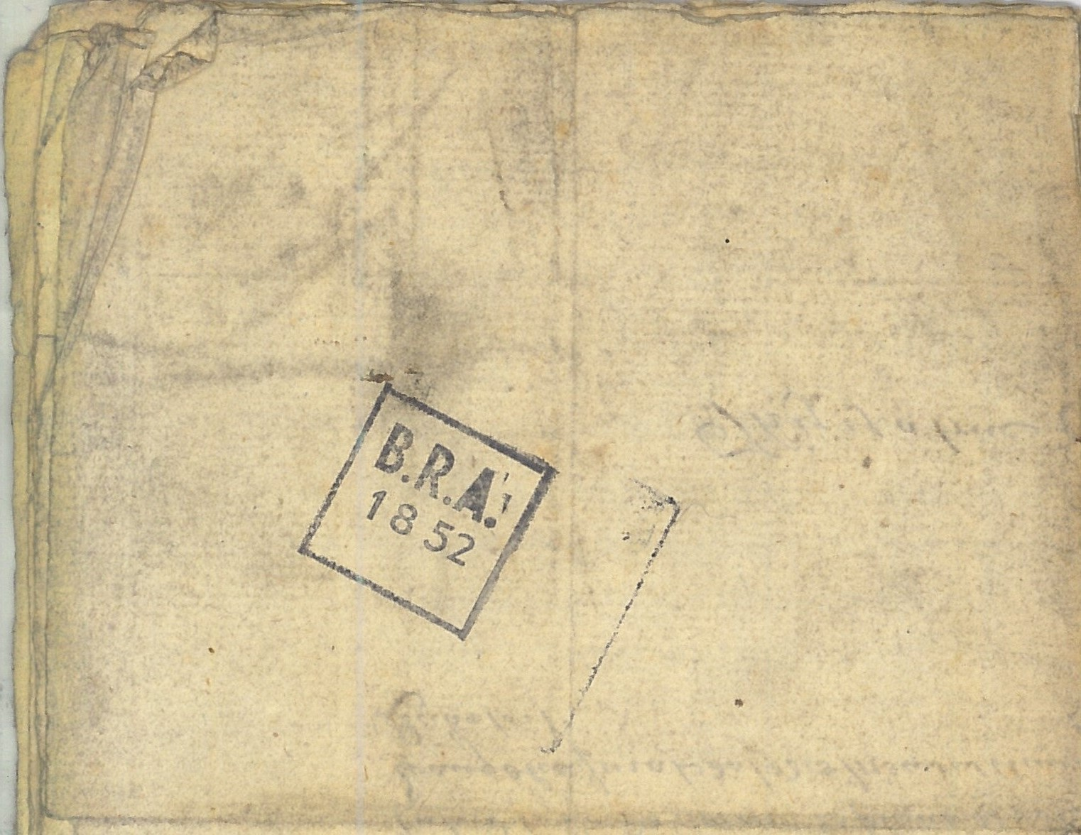 BRA stamp on a historic document indicating that it has been processed by the Records Preservation Section of the British Records Association. The number (1852) provides a record of its earlier provenance.